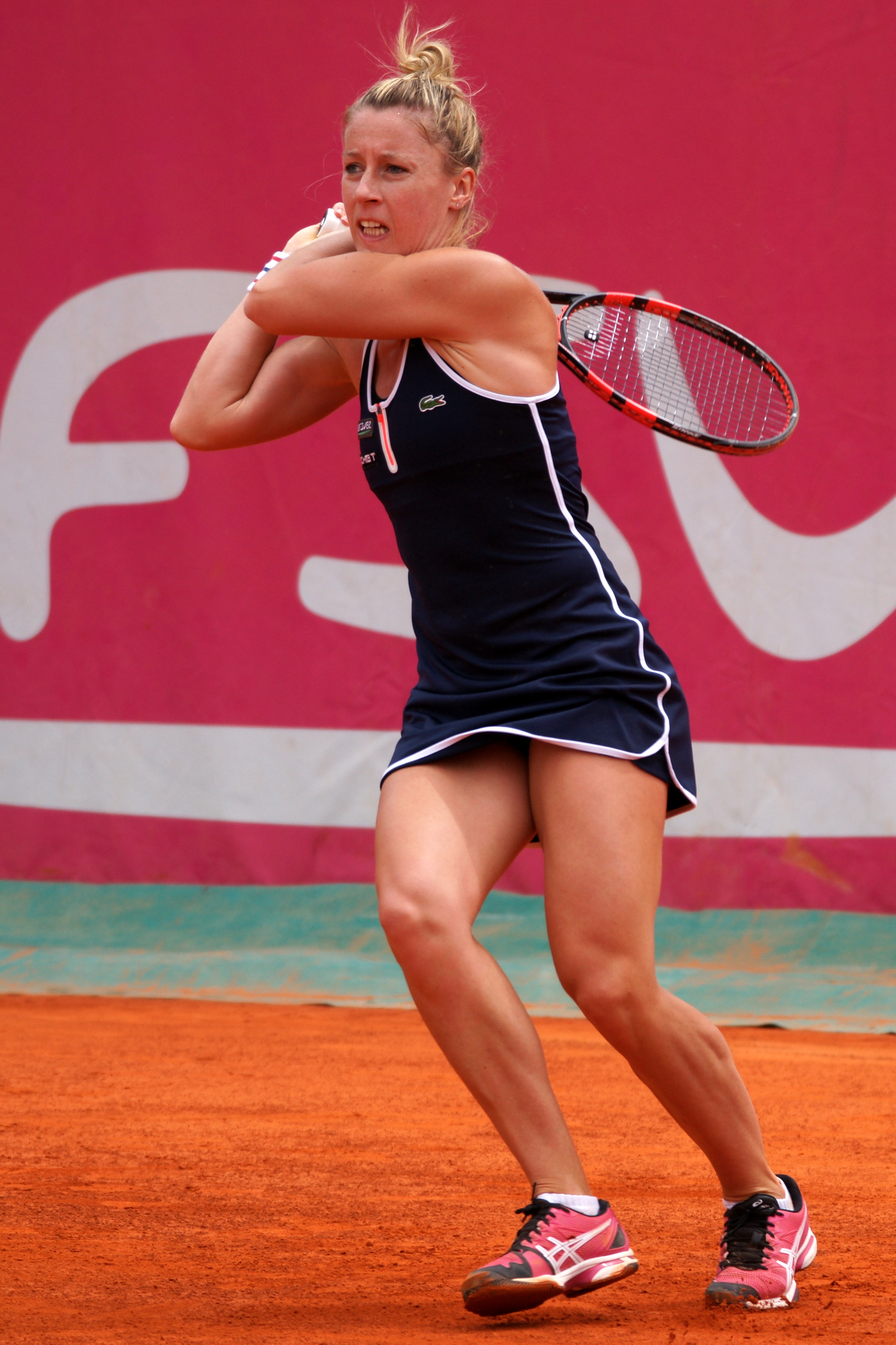 Pauline Parmentier, Cagnes 2015